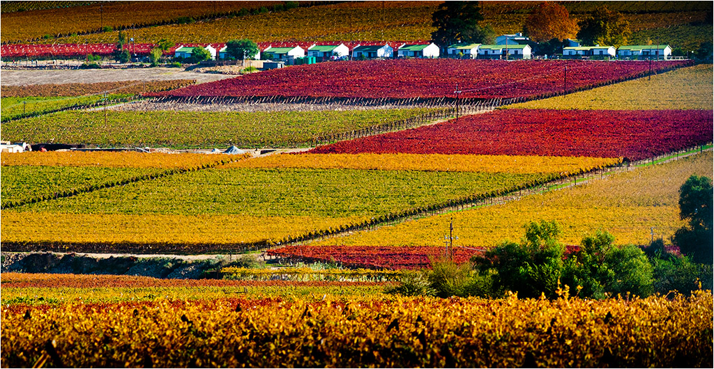 De Doorns is a settlement in Cape Winelands District Municipality in the Western Cape province of South Africa.